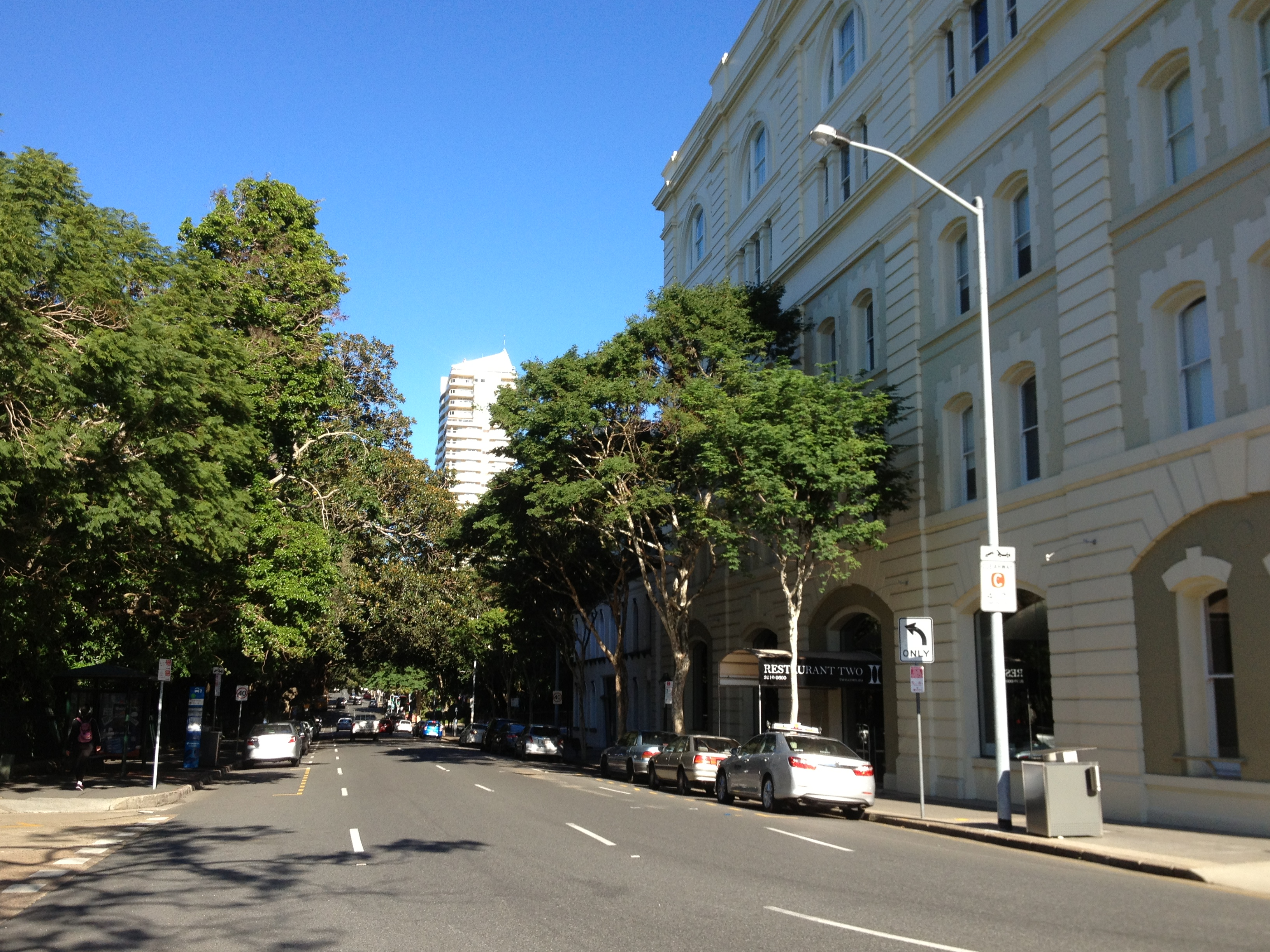 Alice Street, Brisbane seen from the interaction with Edward Street